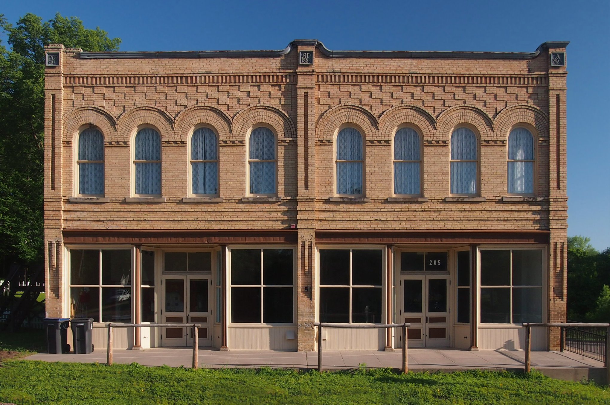 Clearwater Masonic Lodge-Grand Army of the Republic Hall, 205–215 Oak St, Clearwater, Minnesota, USA. Viewed from the southeast.